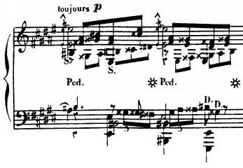 Extract from second movement of Alkan's Grande sonate 'Les quatre ages' op. 33